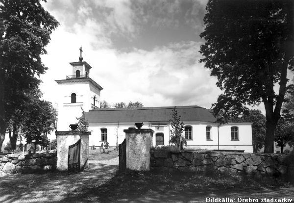 Tysslinge church outside Örebro, Sweden